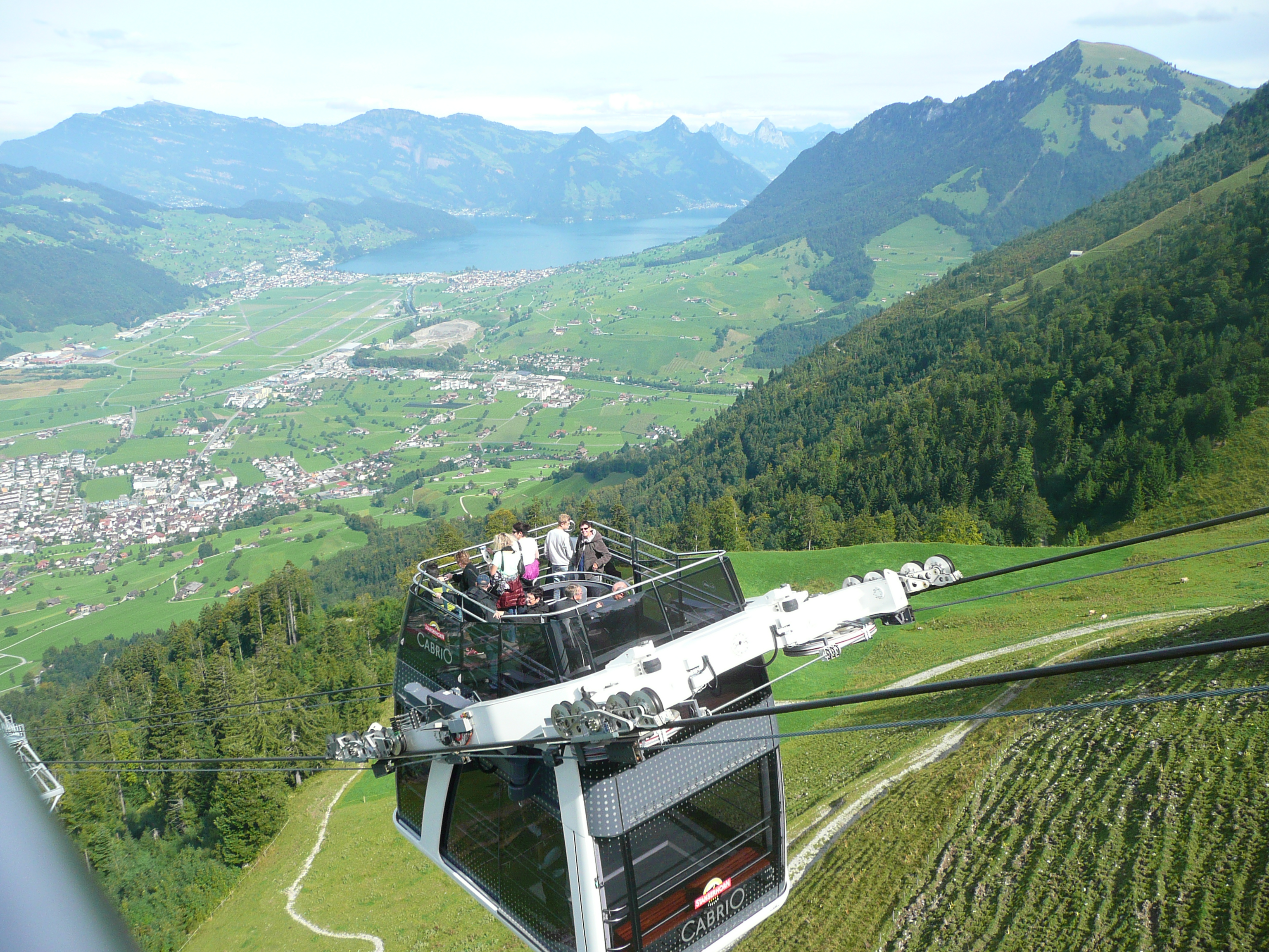 The Cabri-O cable car is the world’s first cable car with a roofless upper deck. Runs to the summit of the Stanserhorn in Switzerland.